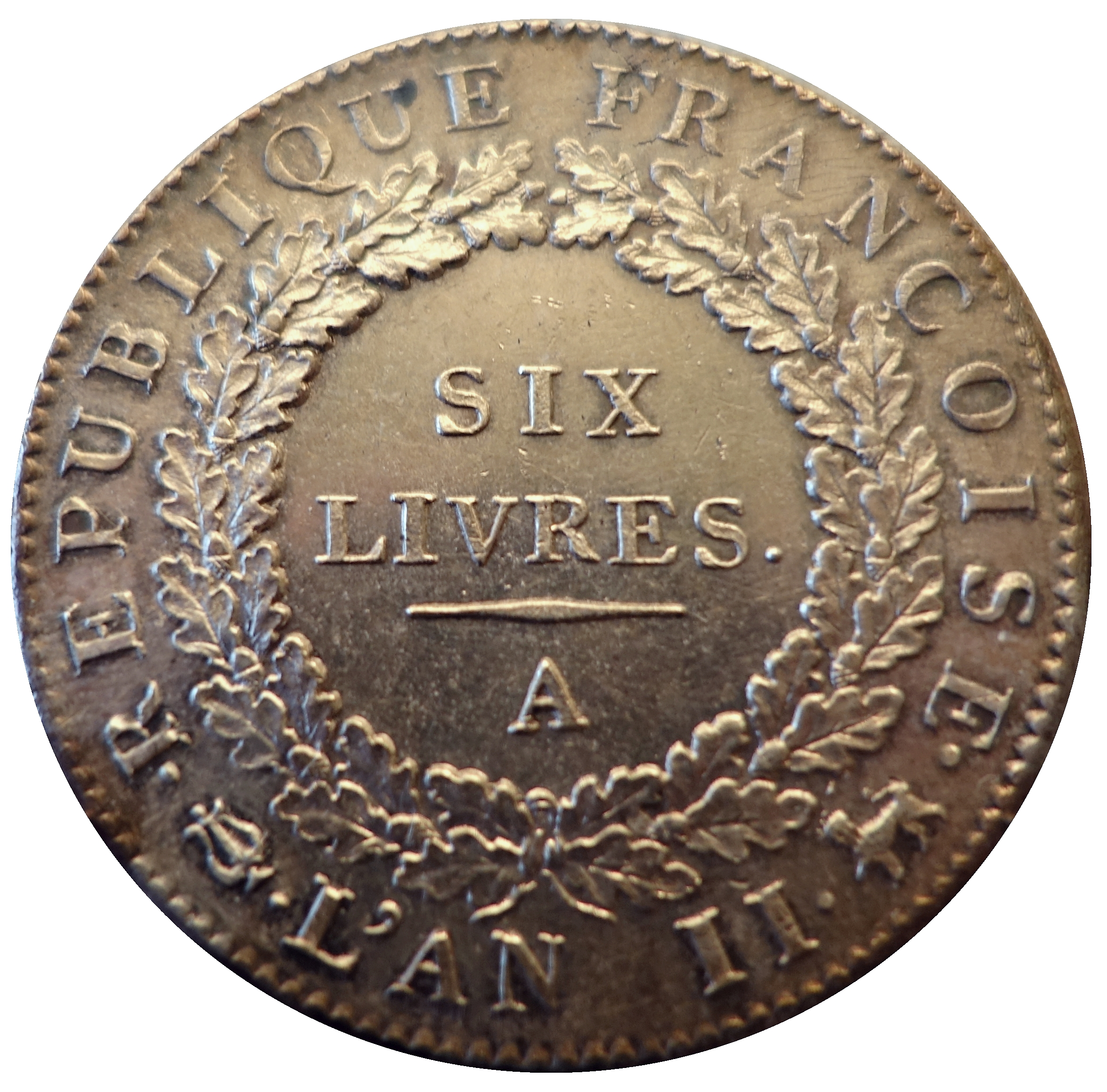 Exhibit in the Bode-Museum, Berlin, Germany. This work is in the public domain because the artist died more than 100 years ago.